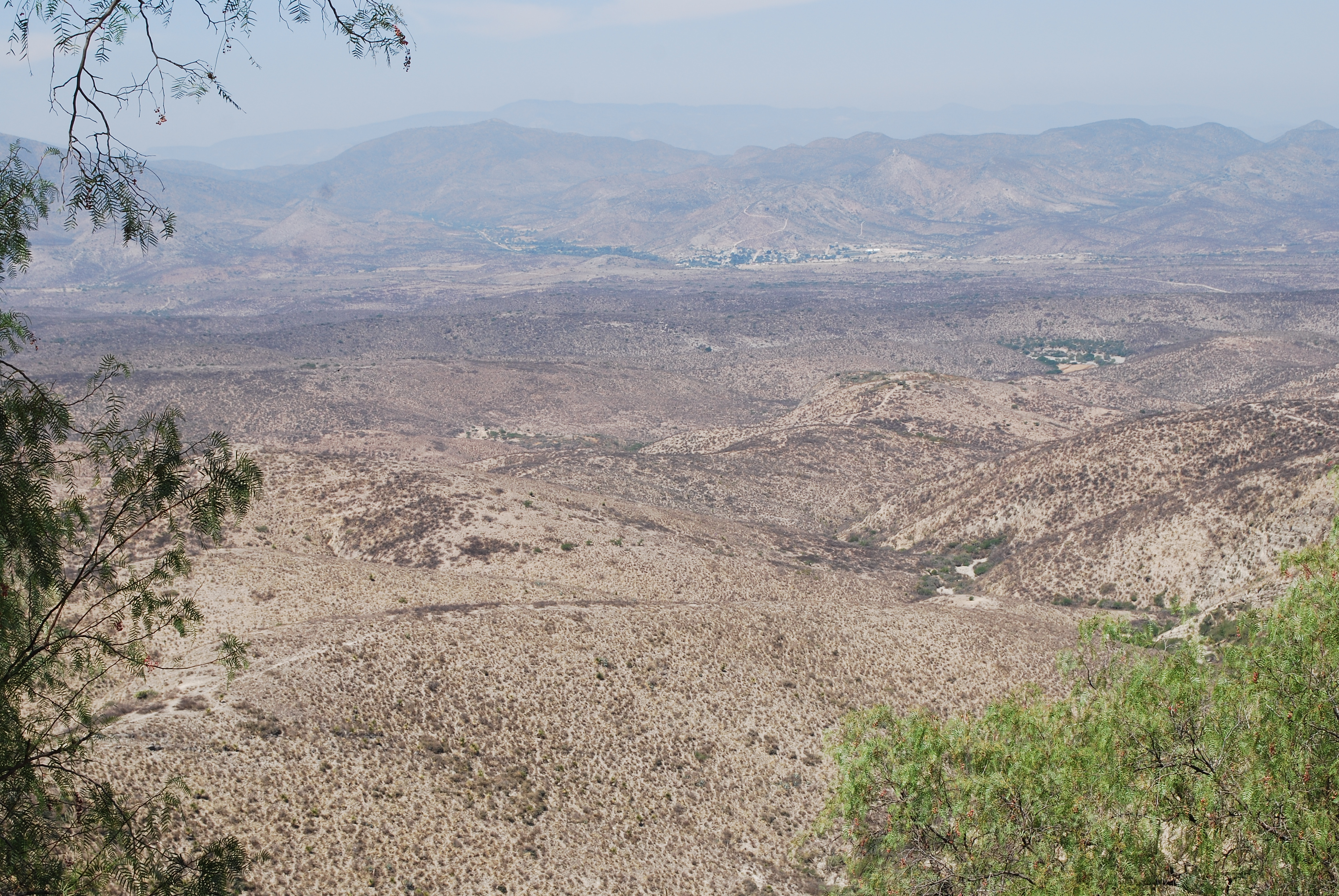 Semi desert area off Highway 120 heading to Pinal de Amoles in Queretaro, Mexico